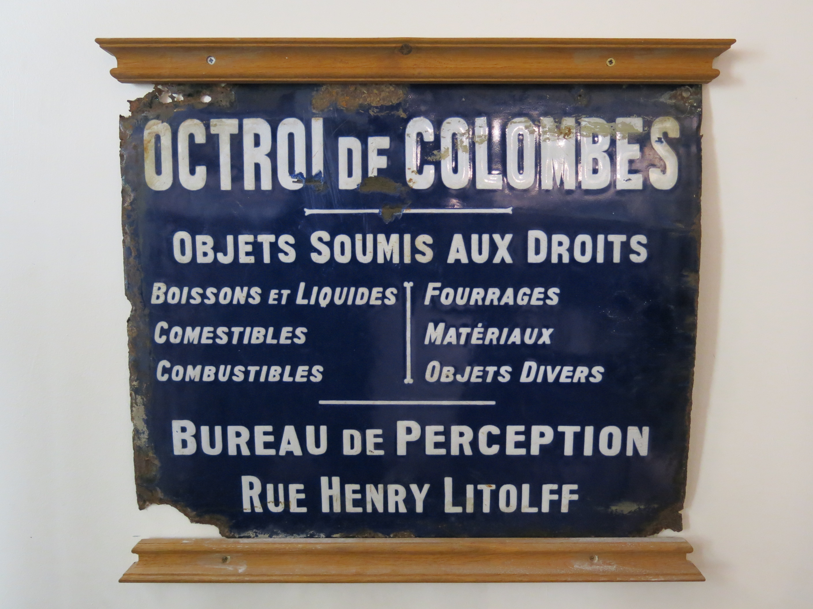 Panel of the tollbooth of Colombes in the Municipal Museum of Art and History in Colombes (Hauts-de-Seine, France).